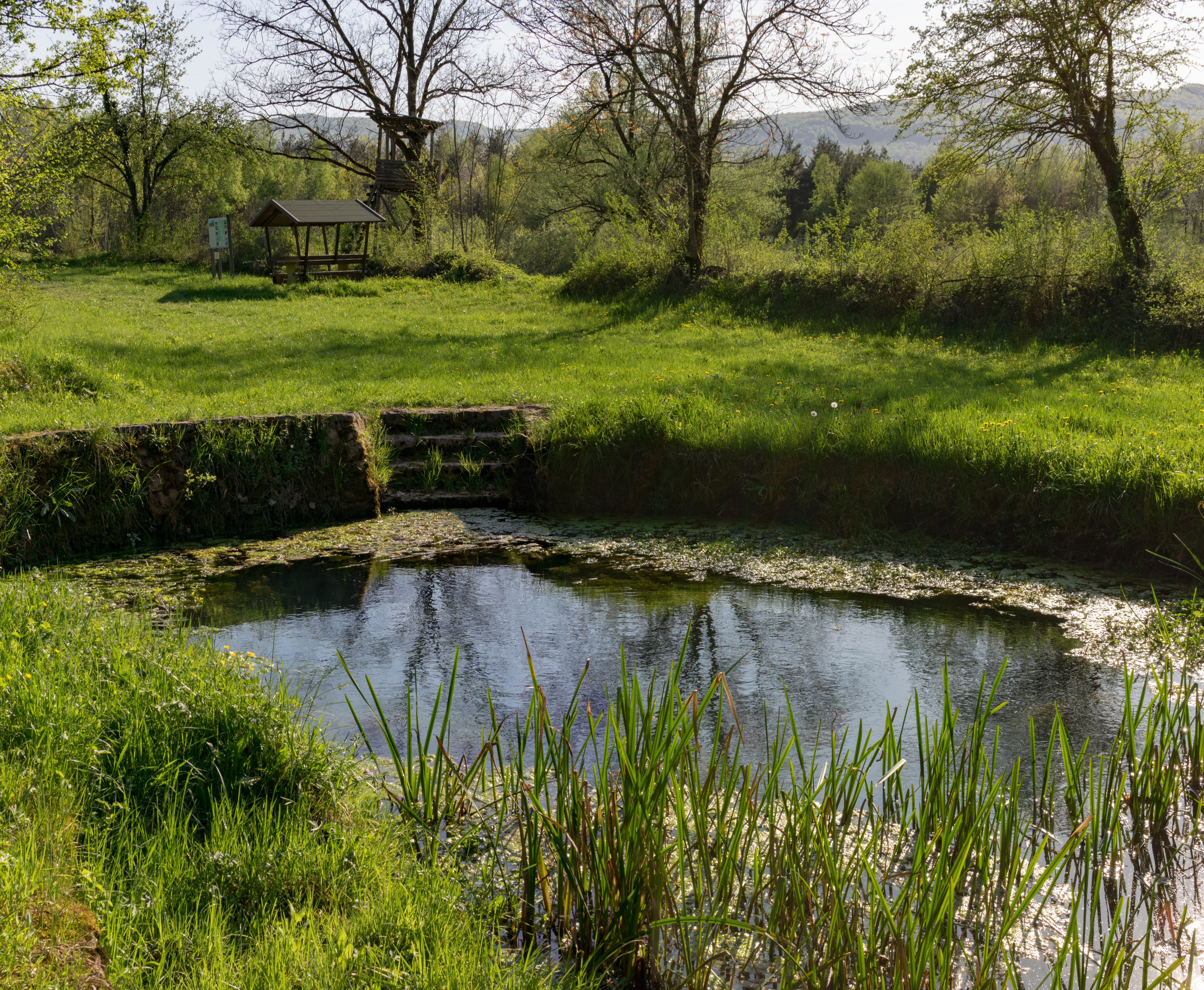 Lahinja's source is located below the village of Belčji vrh in Bela krajina, southeastern Slovenia. Lahinja is the second largest river in the region and flows into Kolpa river.